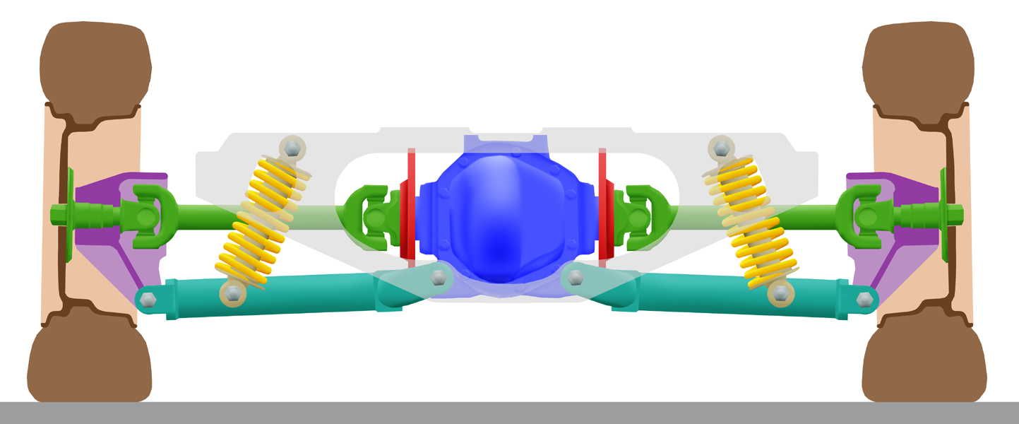 Jaguar's first generation (1961-1996) independent rear suspension unit, seen from the rear in partial cross-section. It is essentially a double wishbone arrangement, except the upper wishbones are formed by the fixed-length driveshafts. The brake calipers are not shown for clarity. Colour code: Grey (semi-transparent) - sub-frame; Blue - Differential (final drive); Cyan - Lower wishbone; Green - Driveshaft (upper wishbone) and hub; Purple - Hub carrier; Brown - Roadwheel; Red - Brake disc; Yellow - Spring and damper units (coilovers), two per side